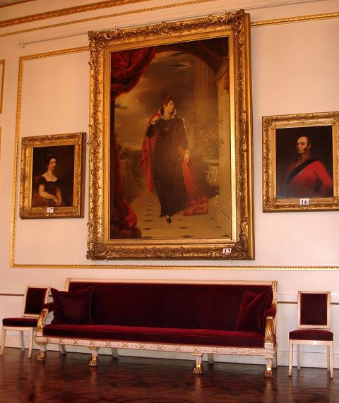 Grote Voorkamer in the Belgian Royal Palace in Brussels, portrait of Princess Charlotte of Wales.